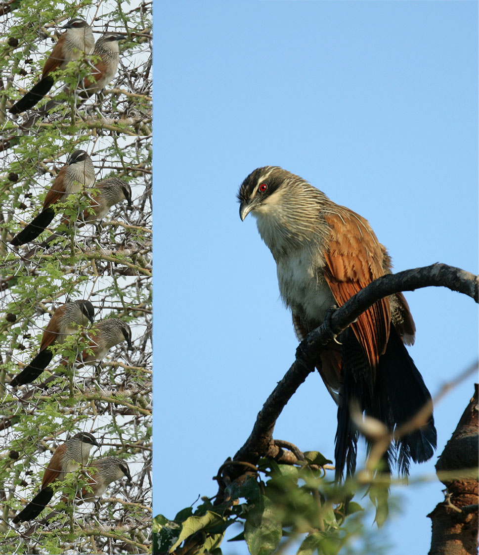 Right panel: White-browed Coucal singing a solo song,showing the typical singing posture with outstretched neck andinflated throat.Left panelpair of duetting White-browed Coucals. The first picture (top) shows the partners immediately before duetting. Inthe second frame, the male (right) starts to sing; in the third frame, the female (left) joins in, thus initiating a duet. The last frame shows the male finishing the duetting sequence. In this case both partners were close together while duetting, but usually the two members of a pairwere spaced between 3 and 40 m apart when performing theircollective song. (Photographs W. Goymann)